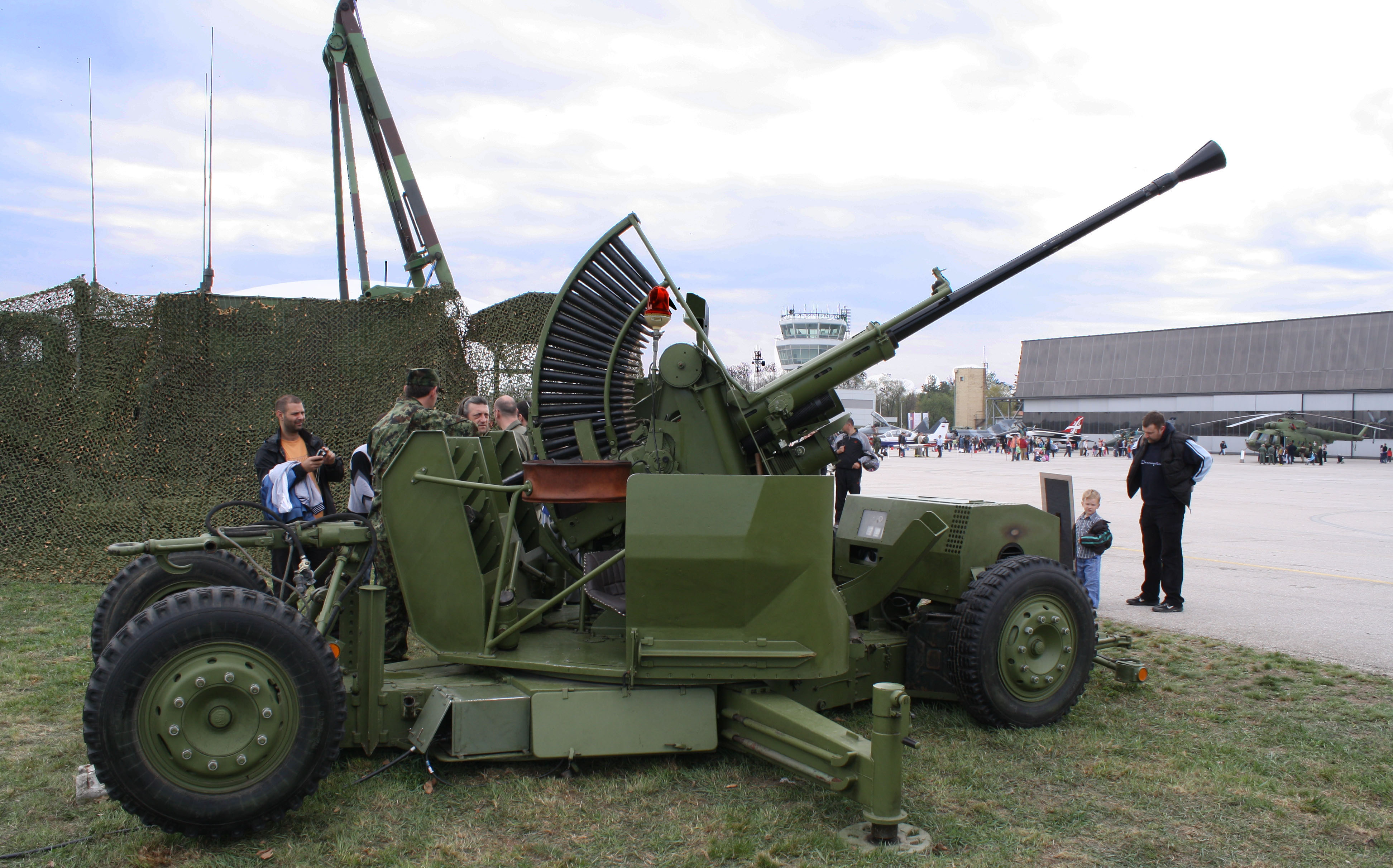 Bofors L/70 40mm anti-aircraft gun of Serbian Air Force and Air Defense on display at Batajnica airbase during the Batajnica 2012 open day.